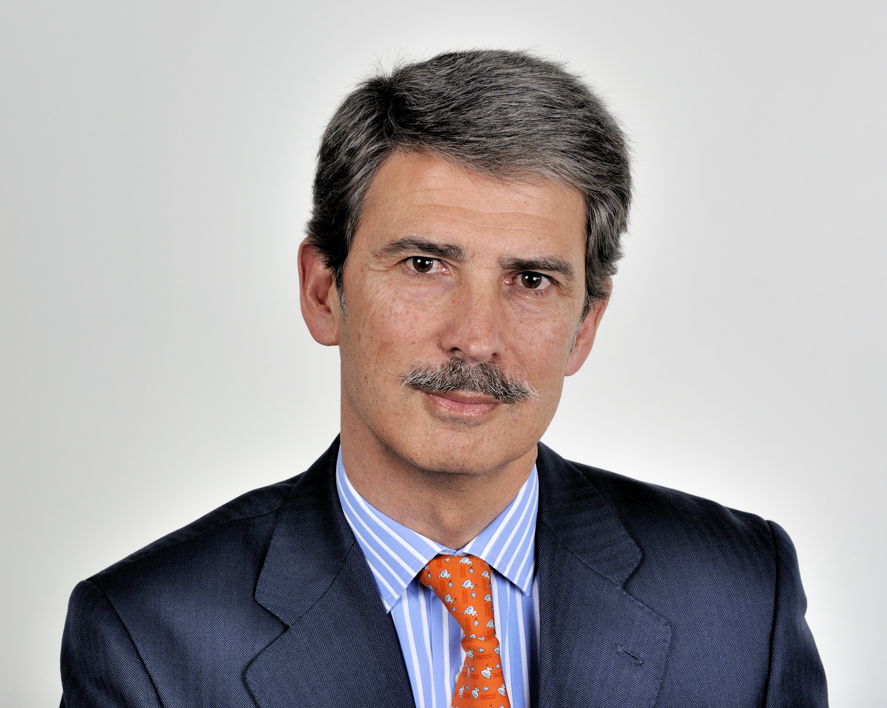 José Ignacio Salafranca Sánchez-Neyra, Spanish politician and member of the European Parliament (as of 2014).